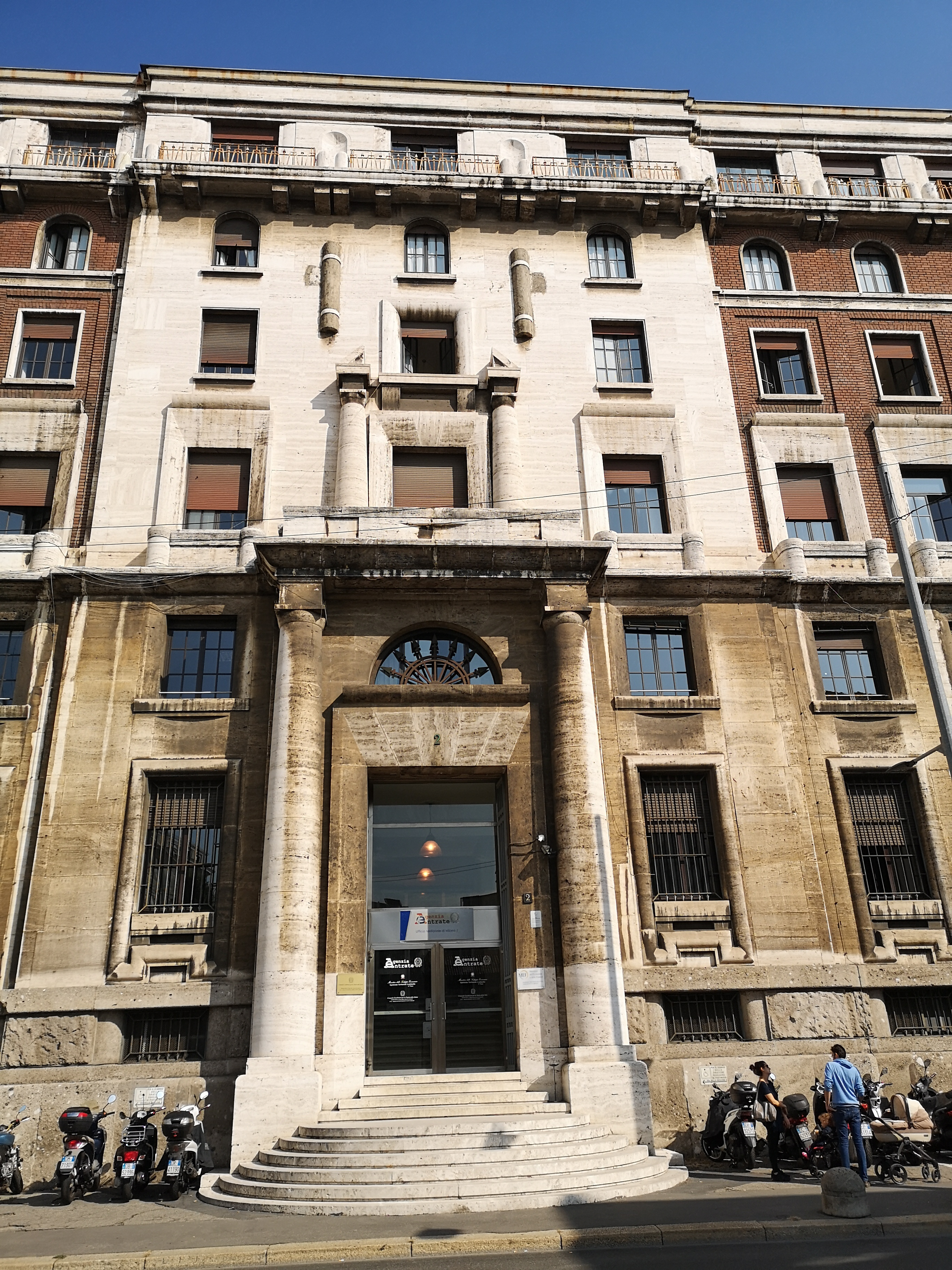 Facade of the Italian Revenue Agency in Milan, built in 1935